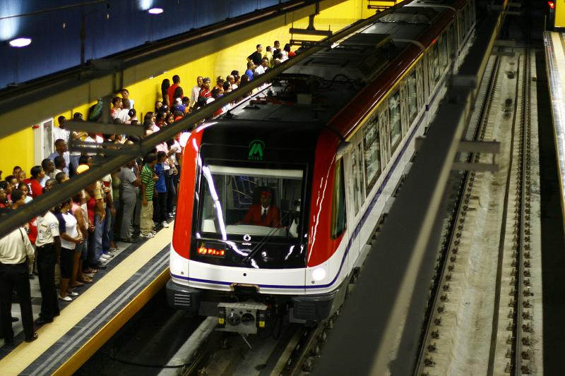 estación juan Pablo Duarte